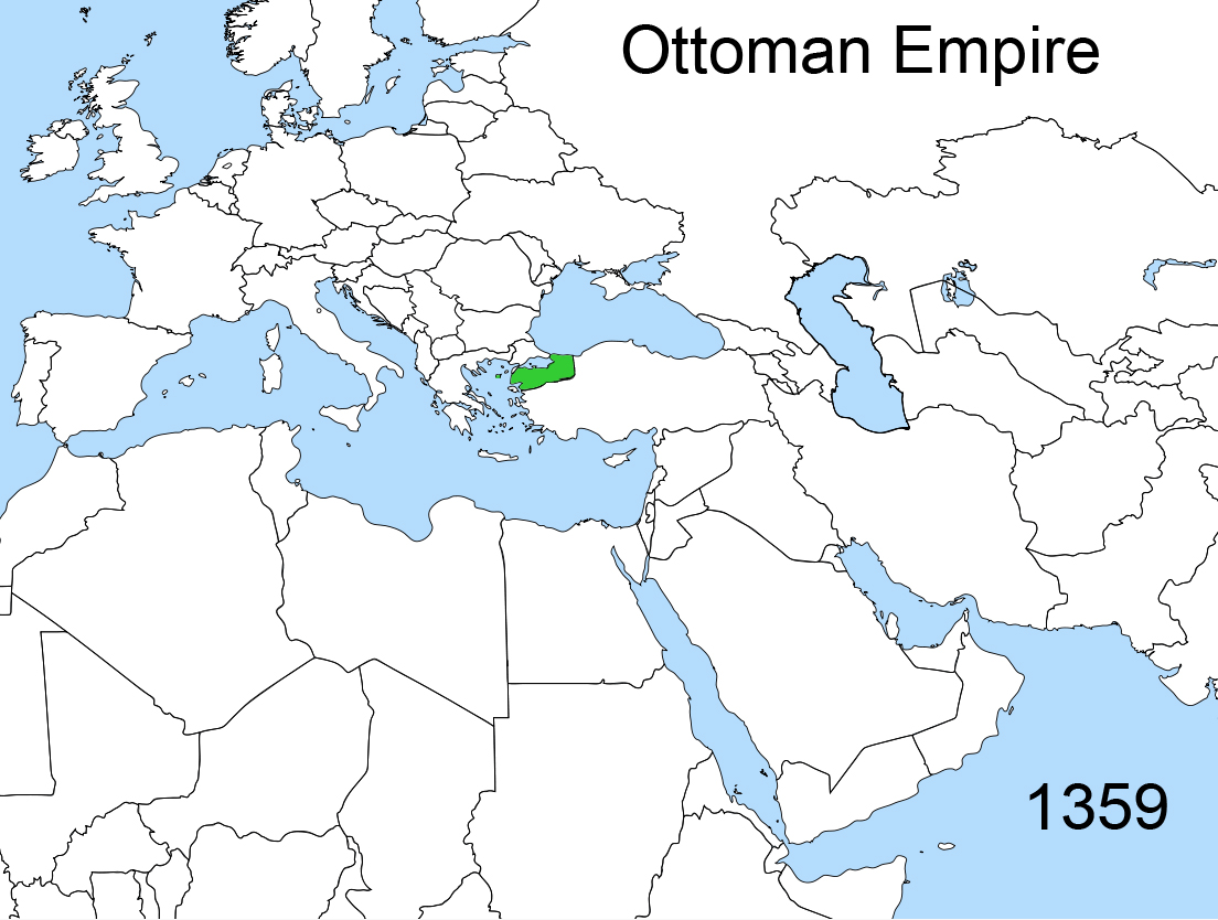 Territorial changes of the Ottoman Empire